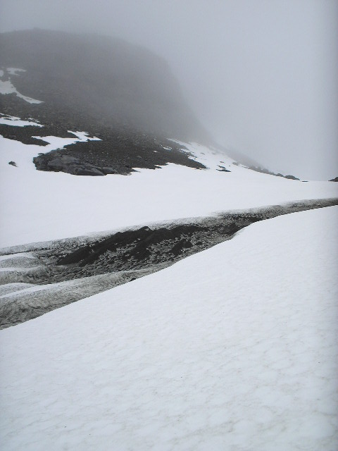 Dirt cones near Gorsajökull in Korsavagge valley, Abisko, Sweden.